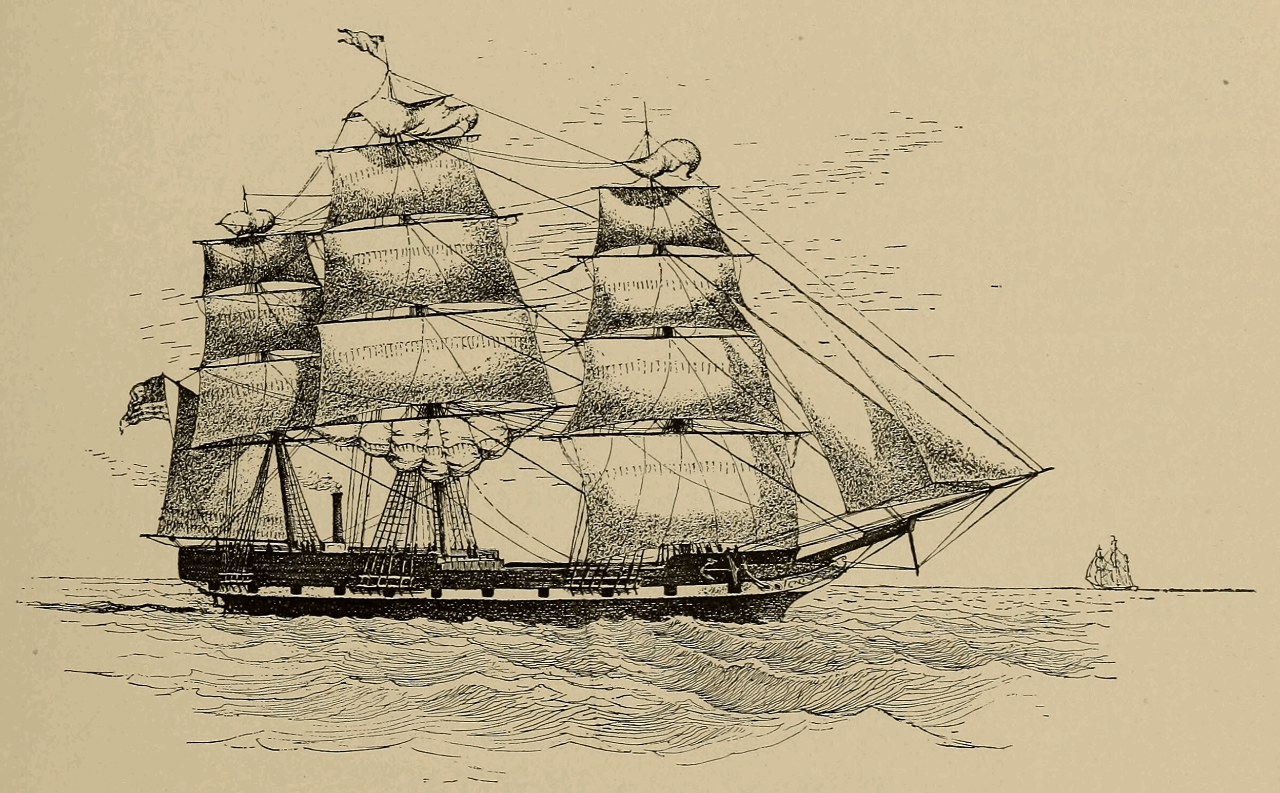 Cassier's Magazine of December 1894 had an article on page 163-176, titled John Ericsson, the engineer. Among the illustrations was this, showing the auxiliary steam packet Massachusetts. She is quoted as an 1843 ship, but most sources date her to 1845. Ericsson supplied engine and propeller for the Boston-built vessel, which was sold to the US Army in 1847 and then to the US Navy in 1849, retaining her name. Illustration shown at page 175.